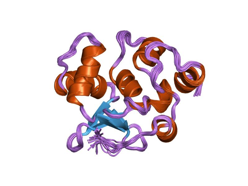 Cartoon representation of the molecular structure of protein registered with 1r36 code.